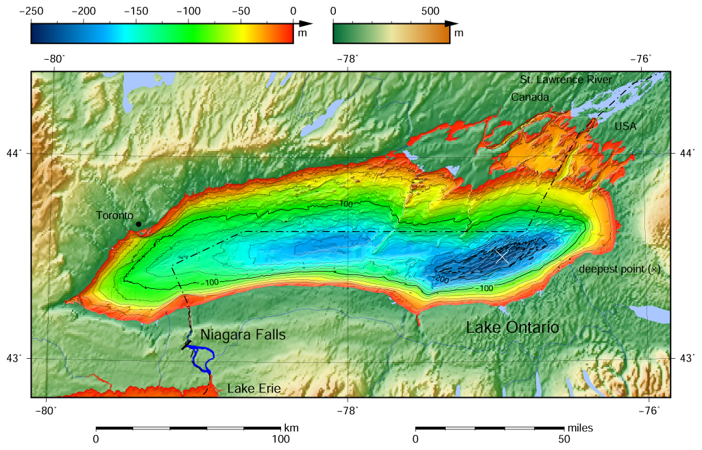 Lake Ontario bathymetric shaded relief map contoured with interval 20 m (100 m with thicker lines). The deepest point is marked with "×". For land the vertical datum is sea level, for bathymetry low water datum of the lake. The map was created using the Generic Mapping Tools, GMT, version 5.1.1.